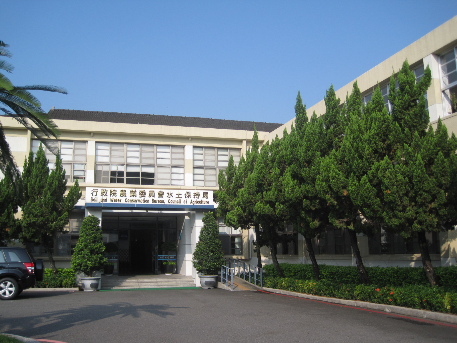 Soil and Water Conservation Bureau, Council of Agriculture, Executive Yuan